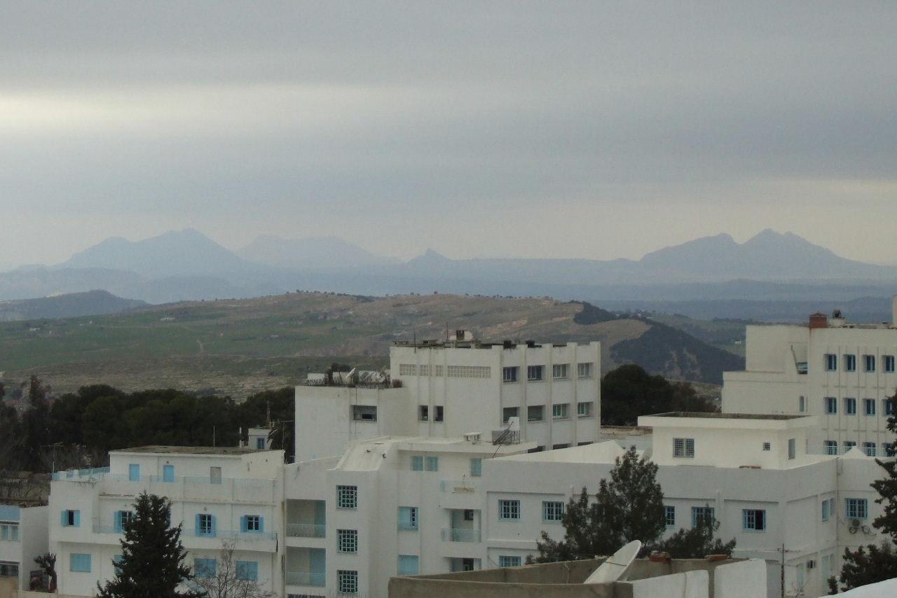 Jugurtha's Table viewed from Le Kef, Tunisia.